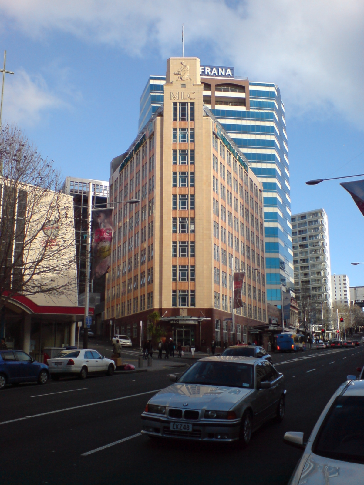 The MLC skyscraper in the Auckland CBD, New Zealand. New Zealand Historic Places Trust Register number: 618.